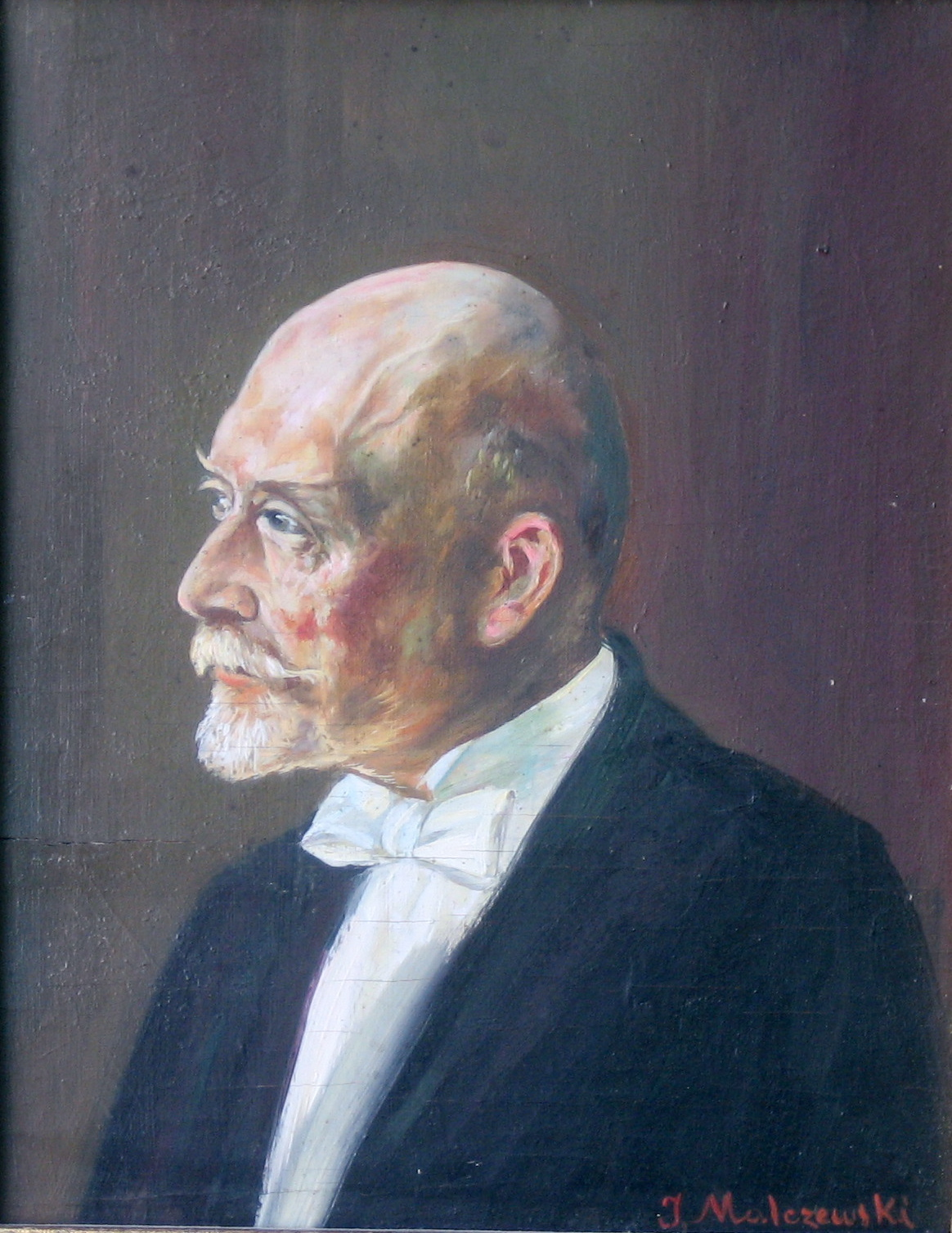 Kazimierz Ostaszewski (1864-1948)